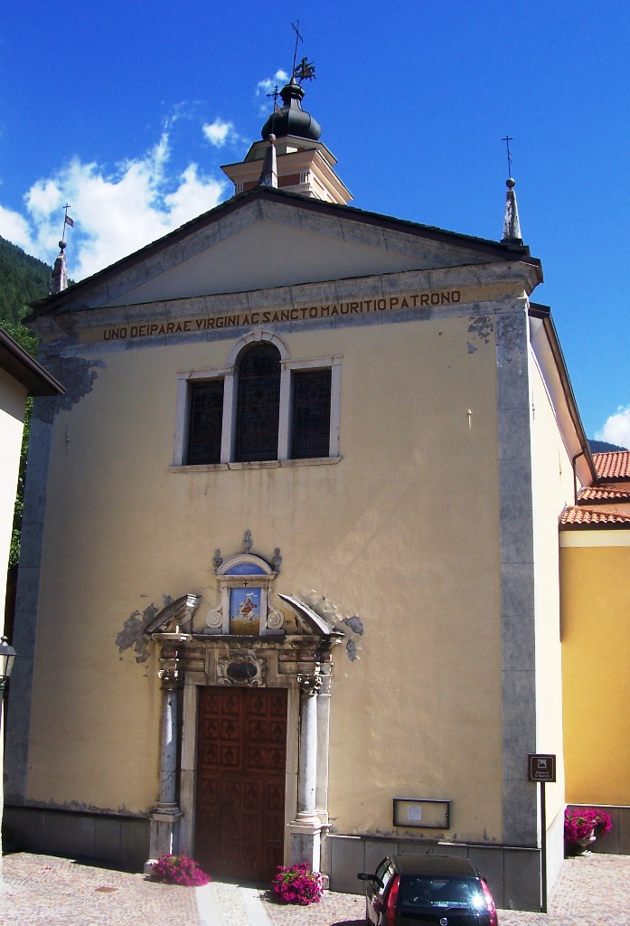 Parish church of S. Maurice Martyr. Incudine at Solivo, Val Camonica, Italy